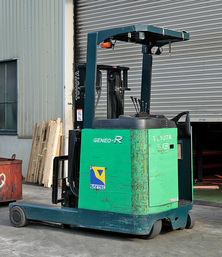 Toyota L&F Geneo R, 2.5t reach type battery forklift ( 7FBR25 ).